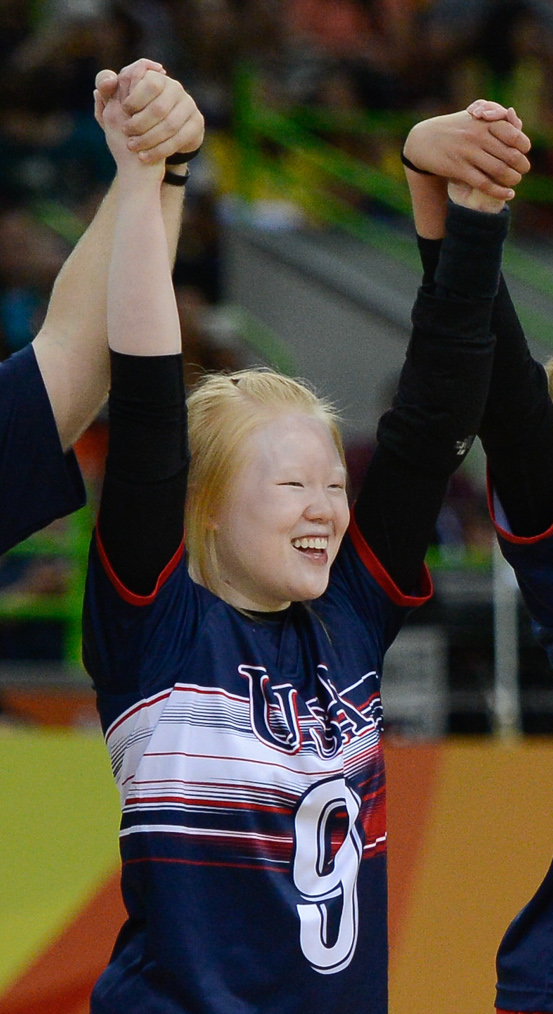 9=Marybai Huking at Rio de Janeiro (Fernando Frazão/Agência Brasil)